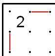 A drawing of a part of a Slitherlink game, showing how a 2 in the corner leads to 2 lines going away from it at the border.